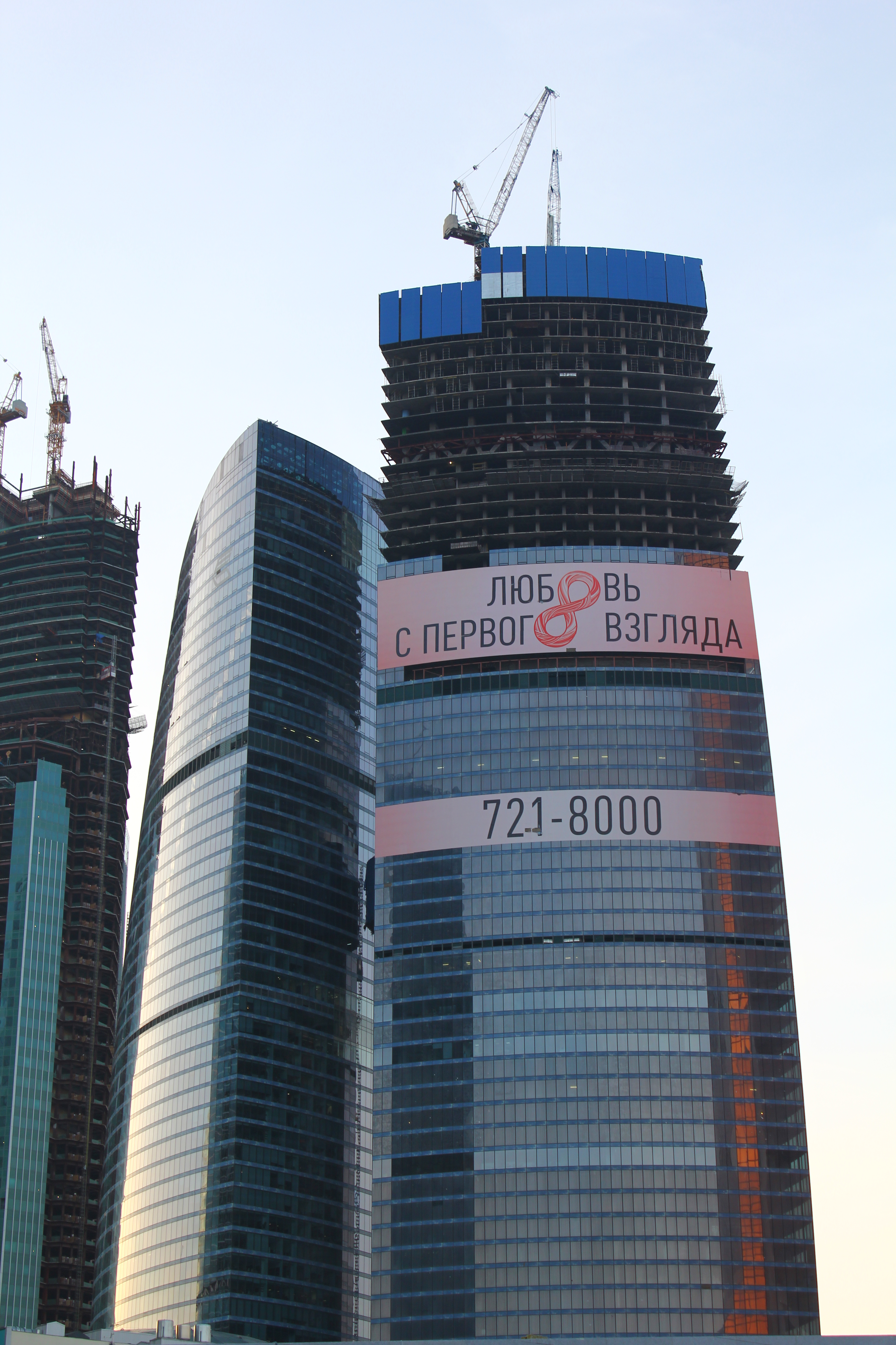 Complex Federation 20th October 2012